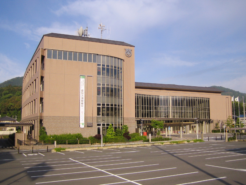 Otowa town office (音羽町役場 Otowachō Yakuba), at 250 Matsumoto, Akasaka, Otowa, Aichi, Japan